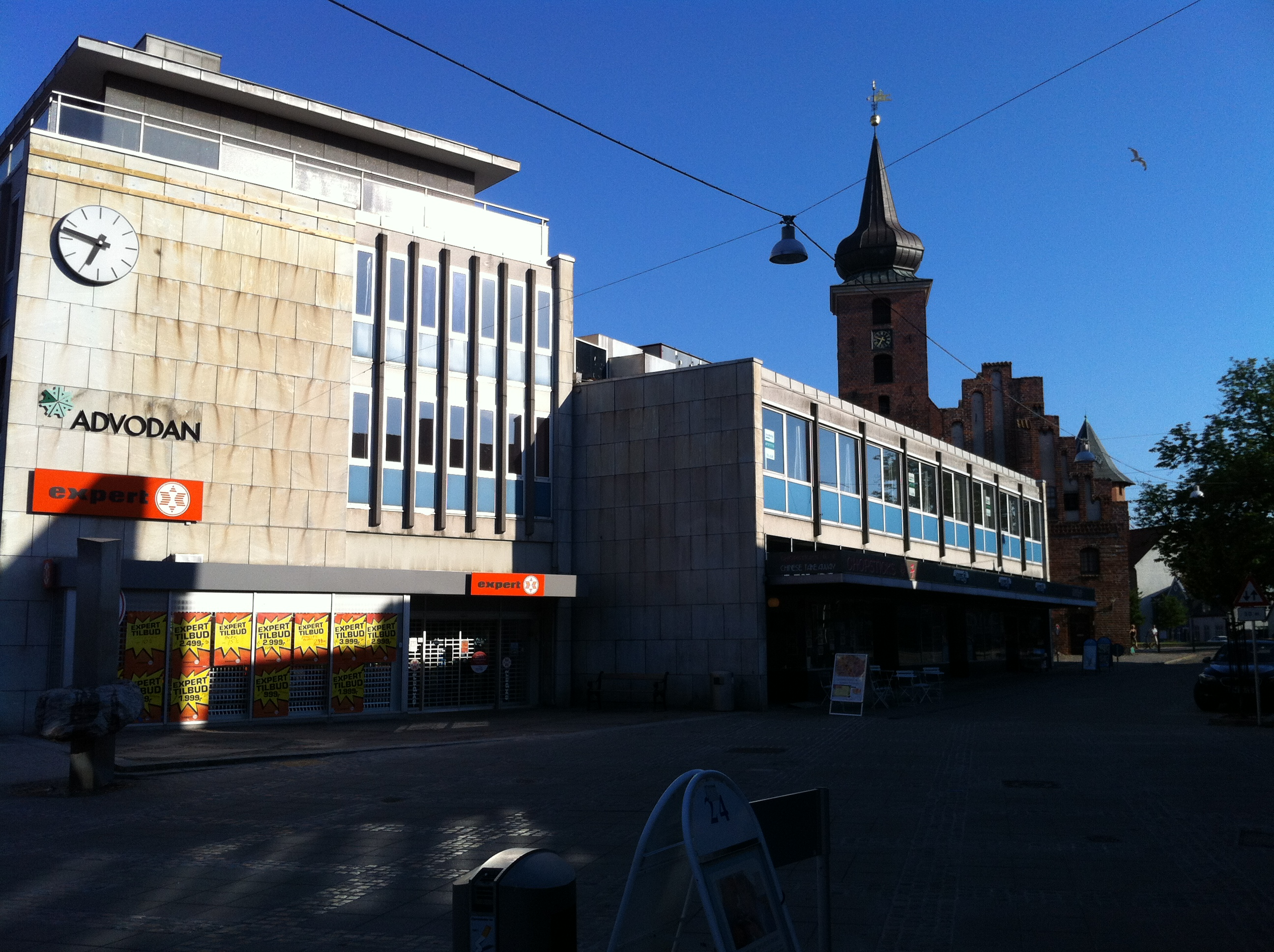 Church and lawyers office in Nykobing, Denmark